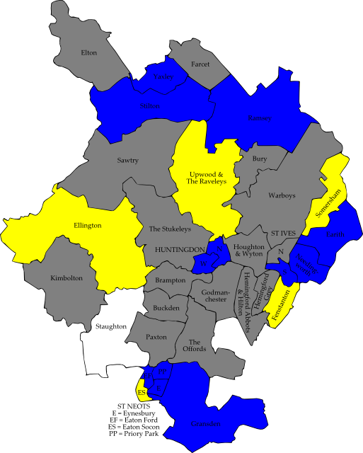 Map of Huntingdonshire, Cambridgeshire, UK showing the results of the 2003 local election. Colours: Conservative Liberal Democrat Independent Wards in grey were not contested in 2003.